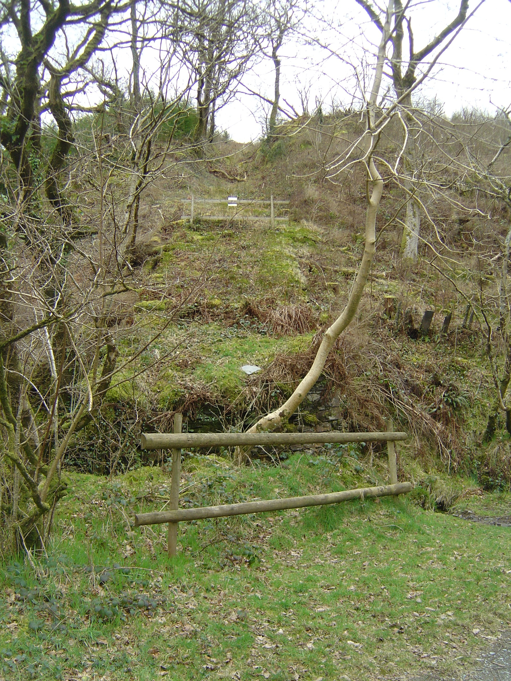 Cantrybedd incline on the Galltymoelfre Tramway extension of the Talyllyn Railway, Wales